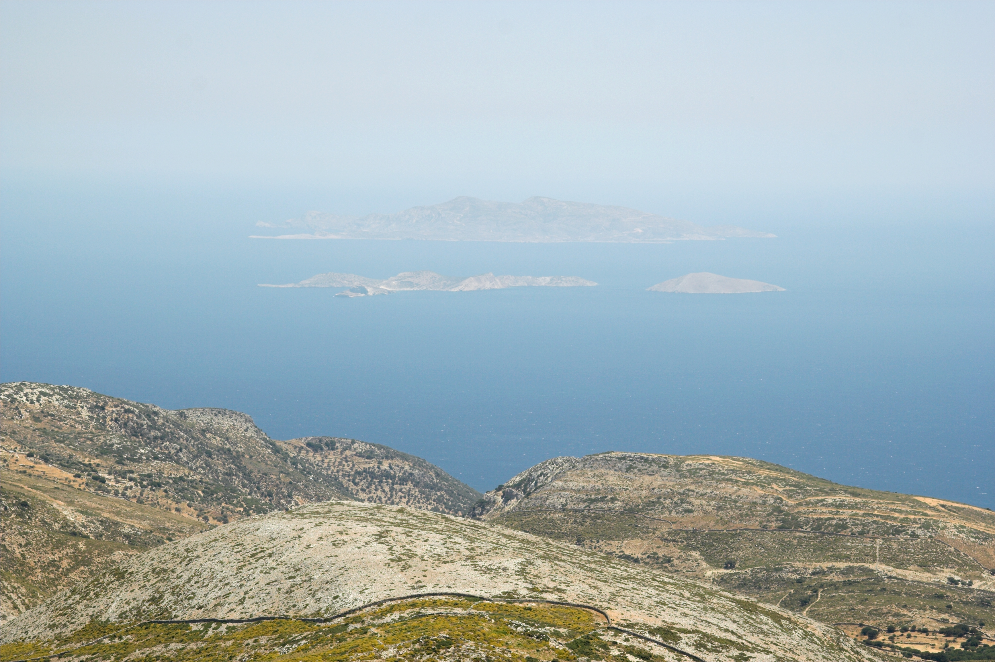 View from the top of Mount Zas on Naxos. Blissful Islands (Makares Nisia) and on the horizon Donoussa.